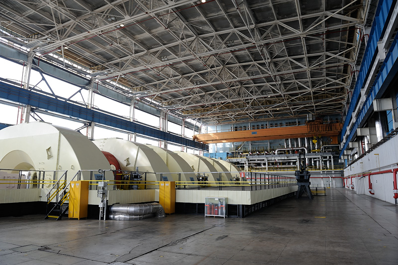 A view inside the machine room of Unit 5 of the Kozloduy Nuclear Power Plant.